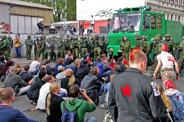 A crowd is jamming a street (Arthur-Hoffmann-Straße) in Leipzig to prevent neonazis, protected by the police, from marching through town.